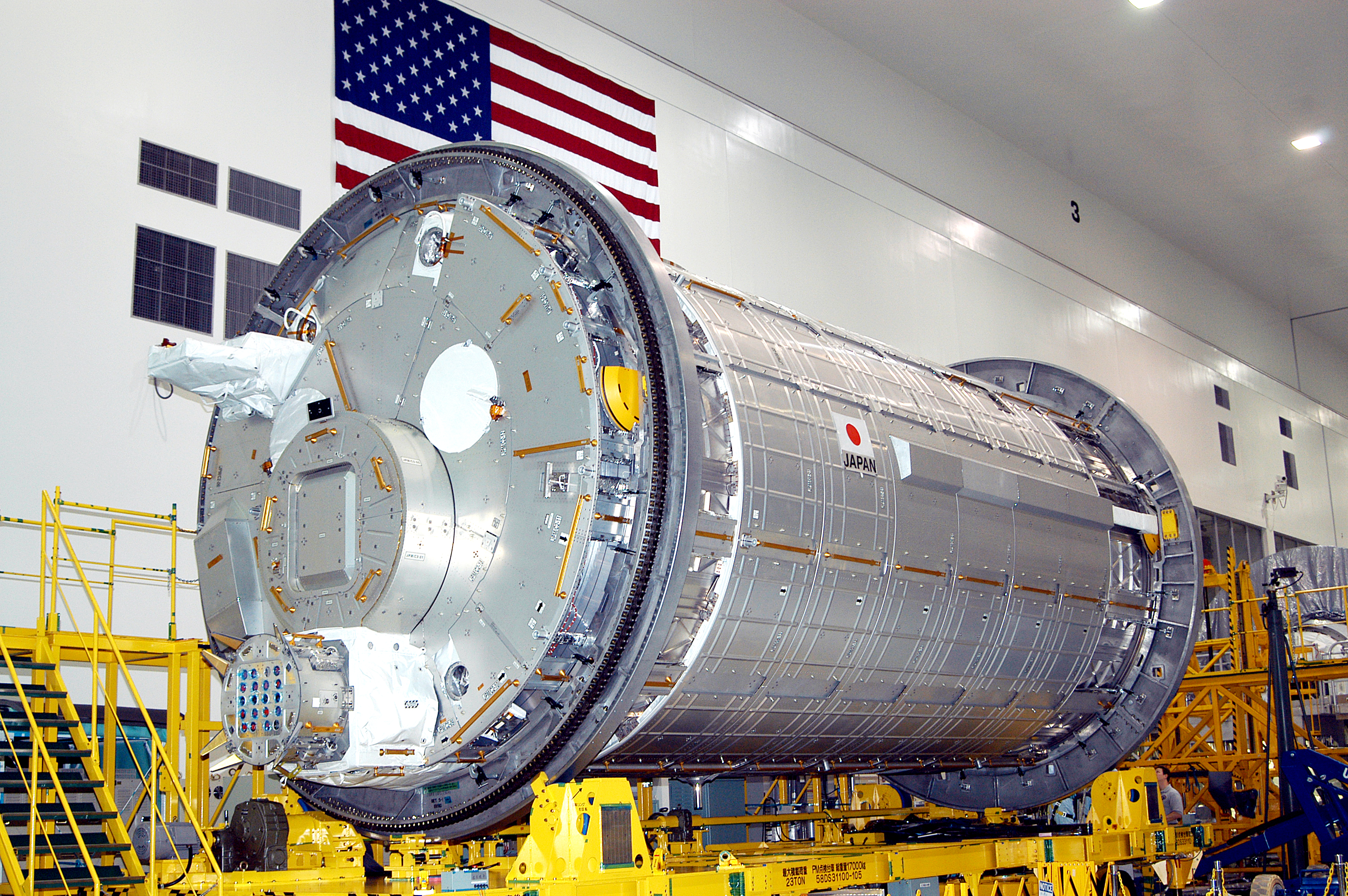 ISS japanese Kibo module original description: In the Space Station Processing Facility, the Japanese Experiment Module (JEM) rests on a workstand during pre-assembly measurement activities. Developed by the Japan Aerospace Exploration Agency (JAXA), the JEM will enhance the unique research capabilities of the orbiting complex by providing an additional environment for astronauts to conduct science experiments.